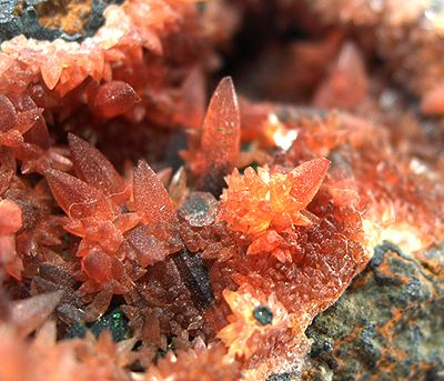 Rhodochrosite Locality: Wolf Mine, Herdorf, Siegerland, Rhineland-Palatinate, Germany (Locality at ) Size: small cabinet, 7.4 x 4.9 x 2 cm Rhodochrosite A hundred years ago the rhodochrosite from this mine was the best in the world and already rare and treasured on the market. They are still classics, today, though almost unobtainable. Collectors now know that these old time specimens are very hard to find in the mineral market place. This is a very large specimen to have survived. Vugs in the ore has allowed the formation of translucent, pink, rhodochrosite scalenohedrons, many of them in rosettes. The largest of the rosettes is nearly 1.00 cm across and some crystals, very sharp, reach 6mm.